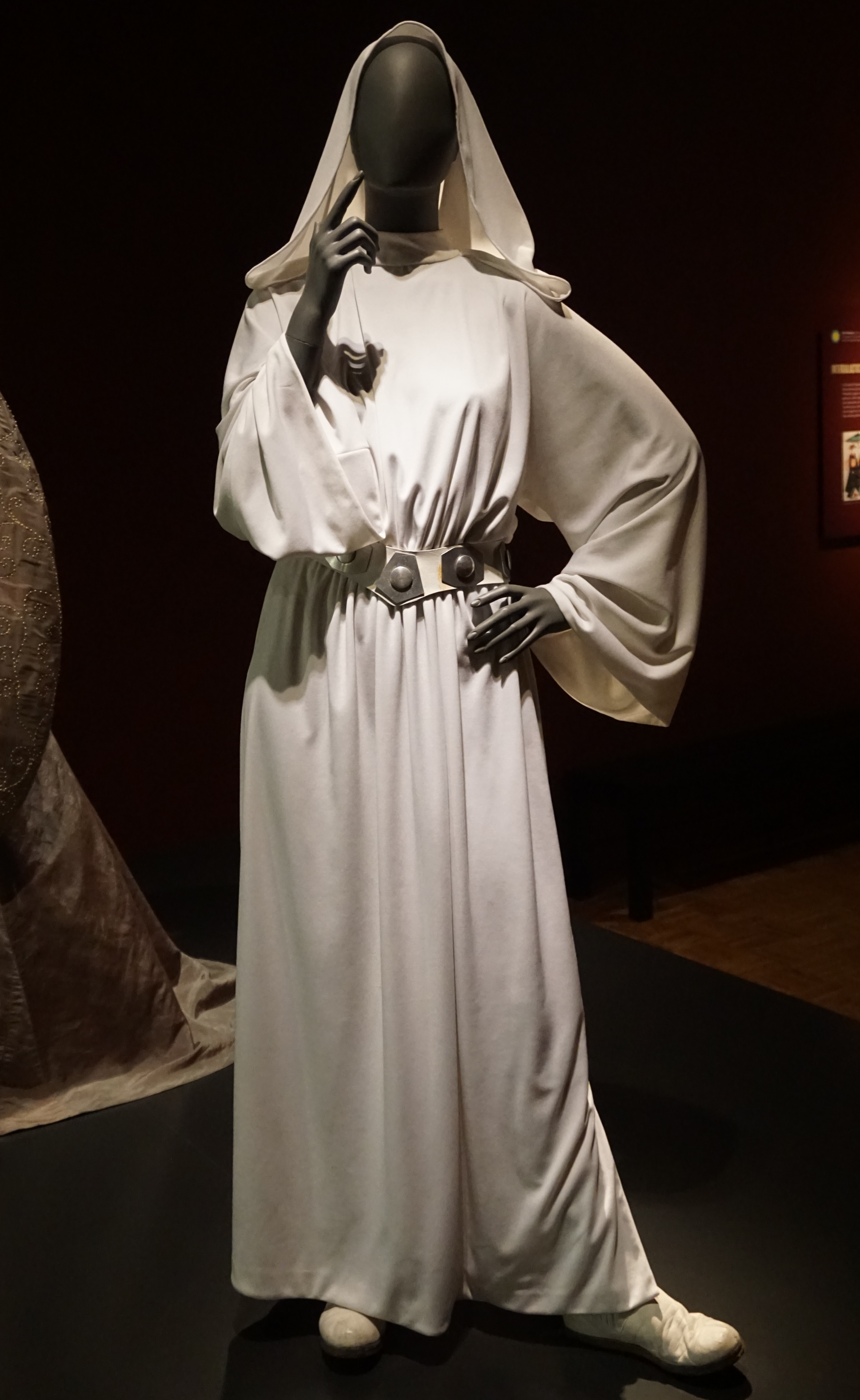 Princess Leia's white gown from Star Wars: Episode IV – A New Hope on display at the Star Wars and the Power of Costume traveling exhibit at the Detroit Institute of Arts in Detroit, Michigan (United States).